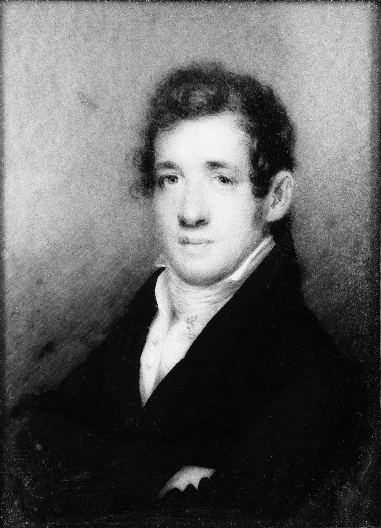 Charles Frederick Mayer Date: ca. 1815–20 Medium: Watercolor on ivory Dimensions: Dimensions unavailable Classification: Paintings Credit Line: Gift of Miss Mary Van Kleeck, 1964